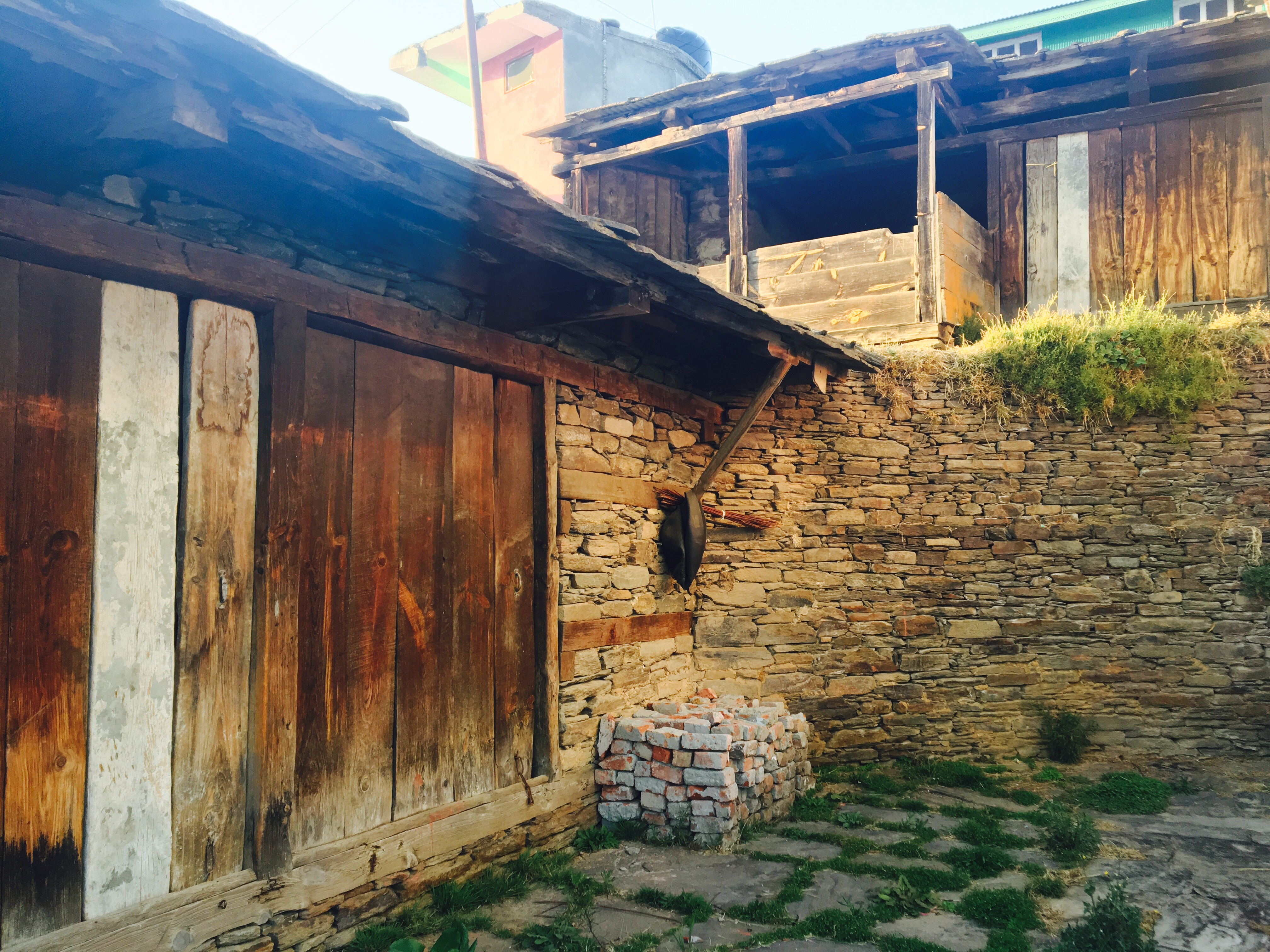 Wooden and stone self made house still exist in Rohru.